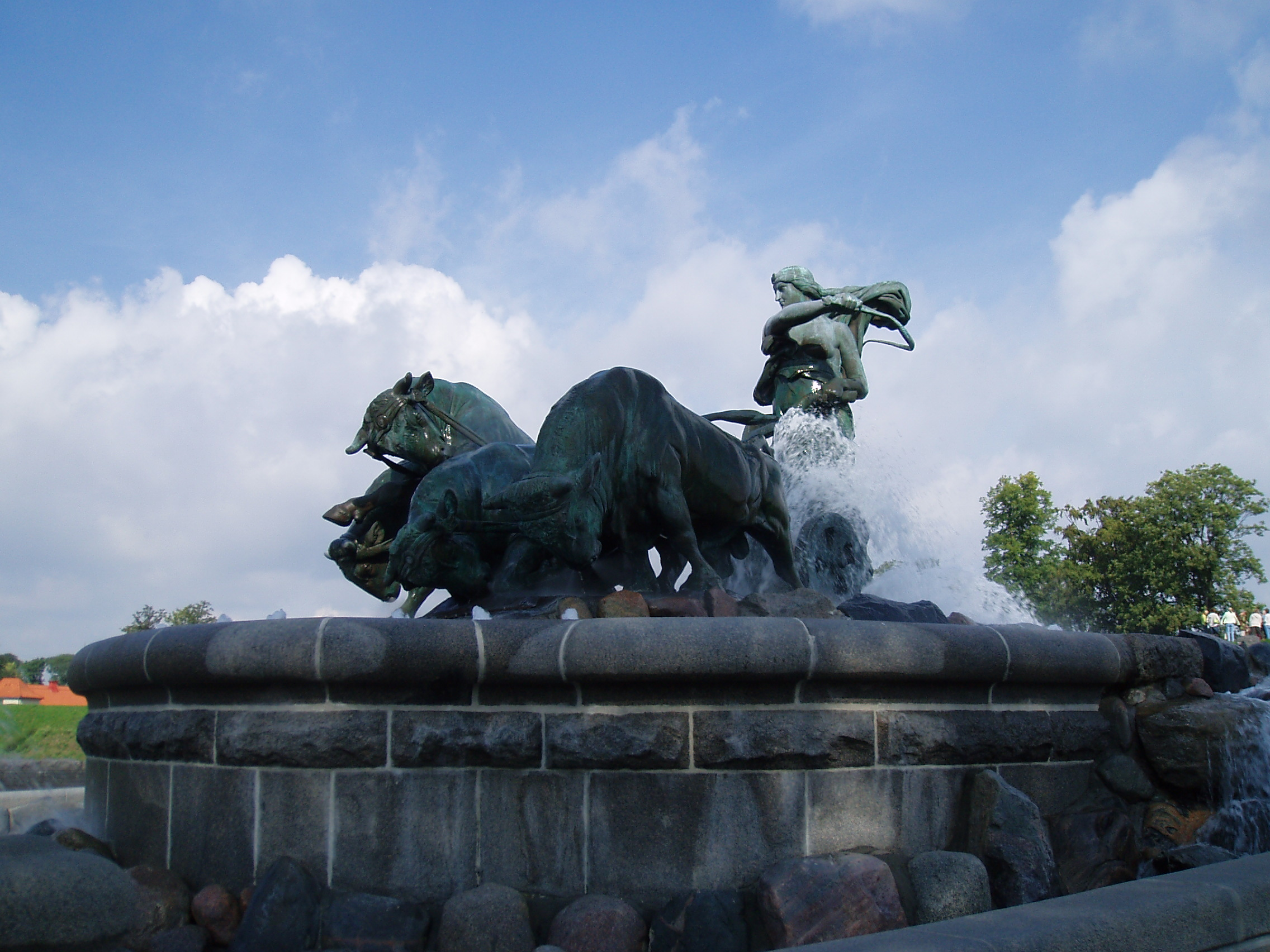 The Gefion fountain in Copenhagen. Recording to the myth Gefjun was promised as much land as she could plow in one night and transformed her four sons into oxes. She then plowed Zealand out of Sweden.